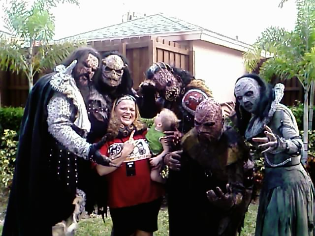 The Finnish band Lordi w/ my friend Scott`s wife and son. Ozzfest 2007, West Palm Beach, Fla. Scott was their sound engineer for the tour. Any comments about the band?